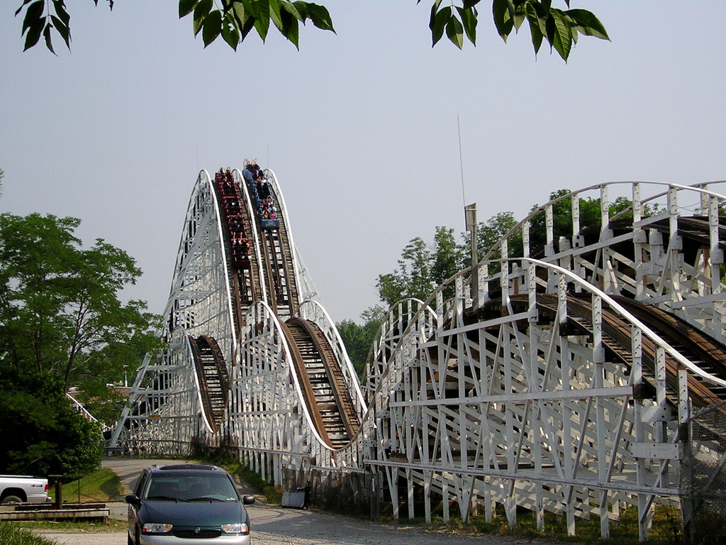 Racer roller coaster at Paramount's Kings Island.